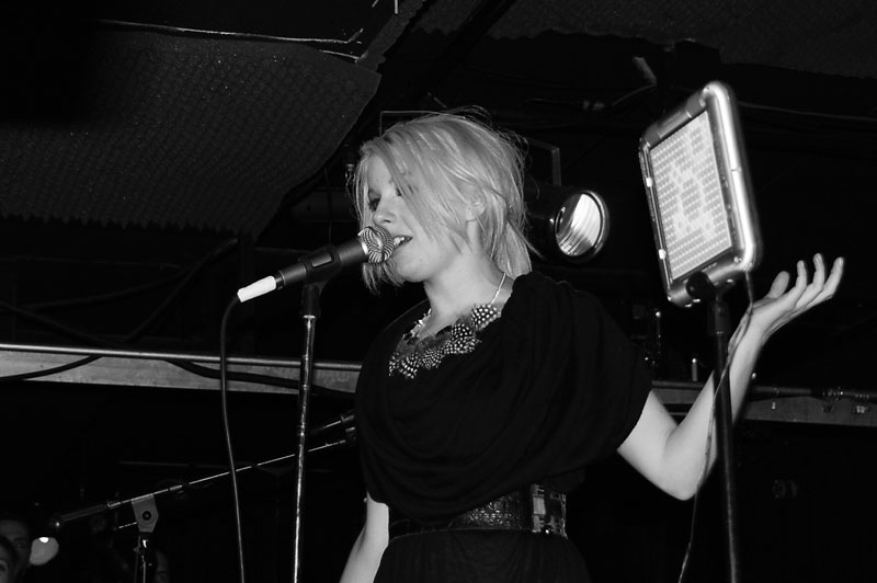 Victoria Hesketh a.k.a. Little Boots @ Studio B (259 Banker St.), Brooklyn NY. February 6th (but actually 7th), 2009